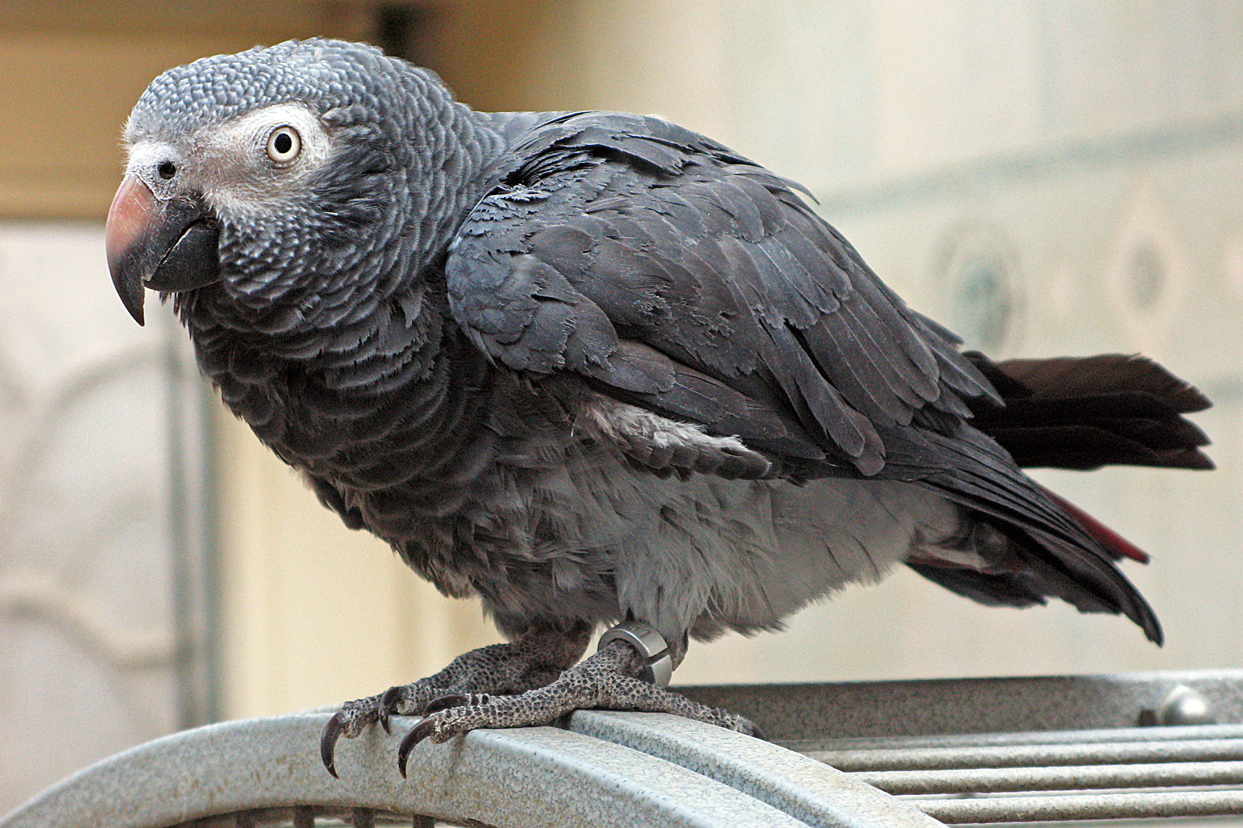 Timneh African Grey Parrot (Psittacus erithacus timneh) - subspecies of the (Psittacus erithacus). Pet parrot sanding on a cage.